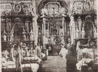 Saint Anthony's church in Ostroleka (Poland) in the year 1916.